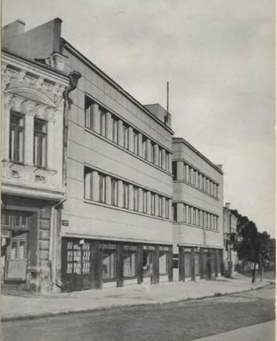 Kryvyi Wal street